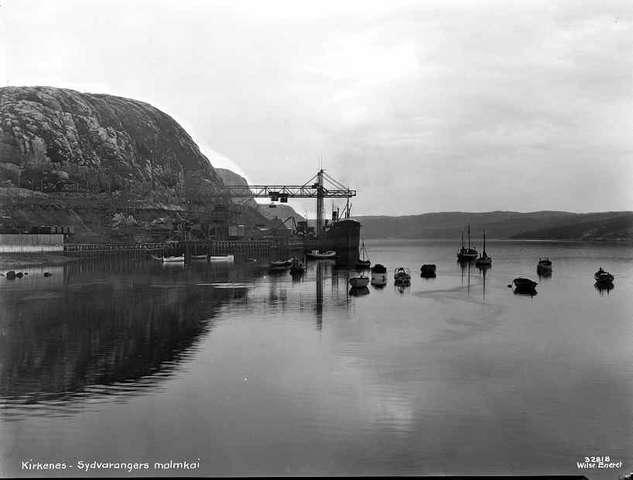 Port for shipping ore at Kirkens, Norway